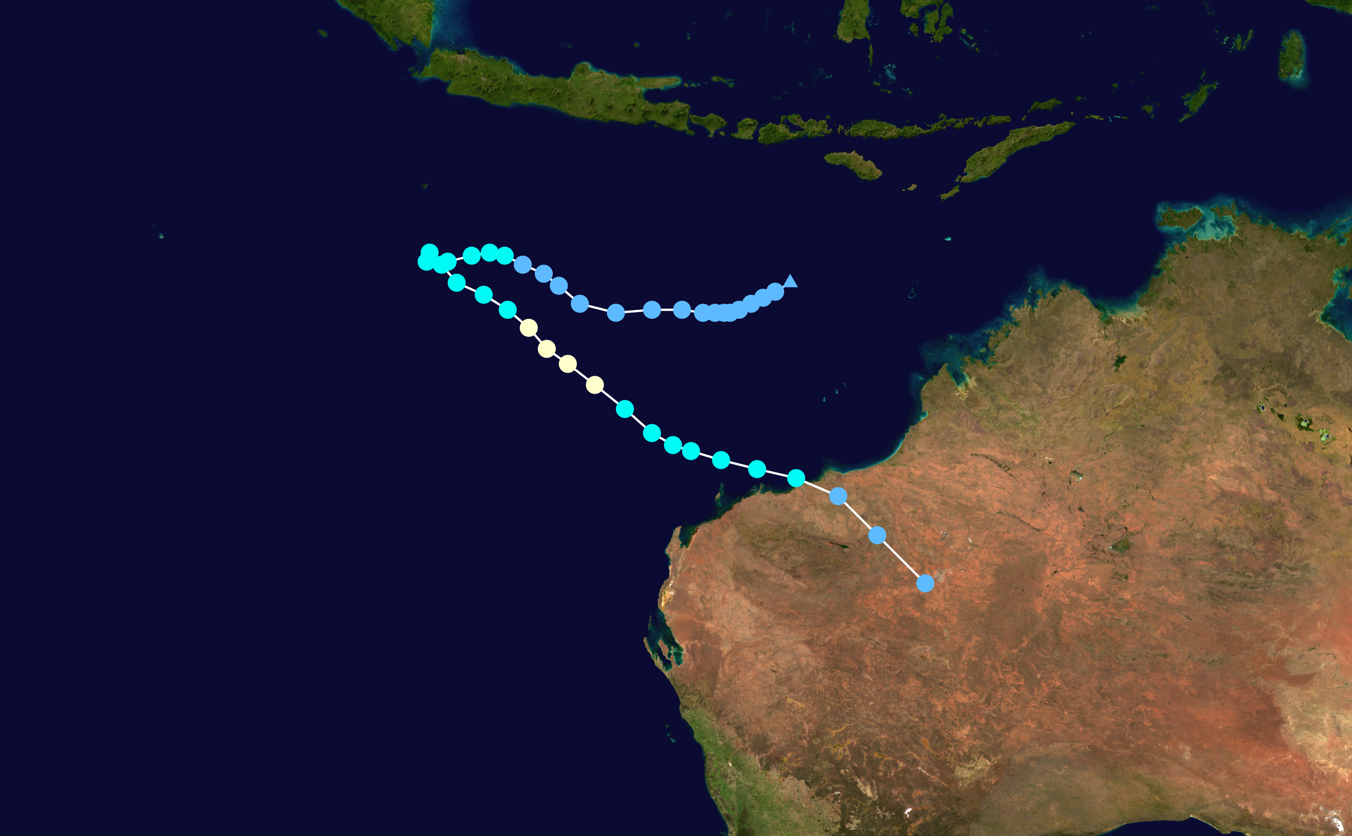 Track map of Severe Tropical Cyclone Jacob of the 2006-07 Australian region cyclone season. The points show the location of the storm at 6-hour intervals. The colour represents the storm's maximum sustained wind speeds as classified in the Saffir–Simpson scale (see below), and the shape of the data points represent the nature of the storm, according to the legend below. Saffir–Simpson scale Tropical depression≤38 mph≤62 km/h Category 3111–129 mph178–208 km/h Tropical storm39–73 mph63–118 km/h Category 4130–156 mph209–251 km/h Category 174–95 mph119–153 km/h Category 5≥157 mph≥252 km/h Category 296–110 mph154–177 km/h Unknown Storm type Tropical cyclone Subtropical cyclone Extratropical cyclone / Remnant low / Tropical disturbance / Monsoon depression